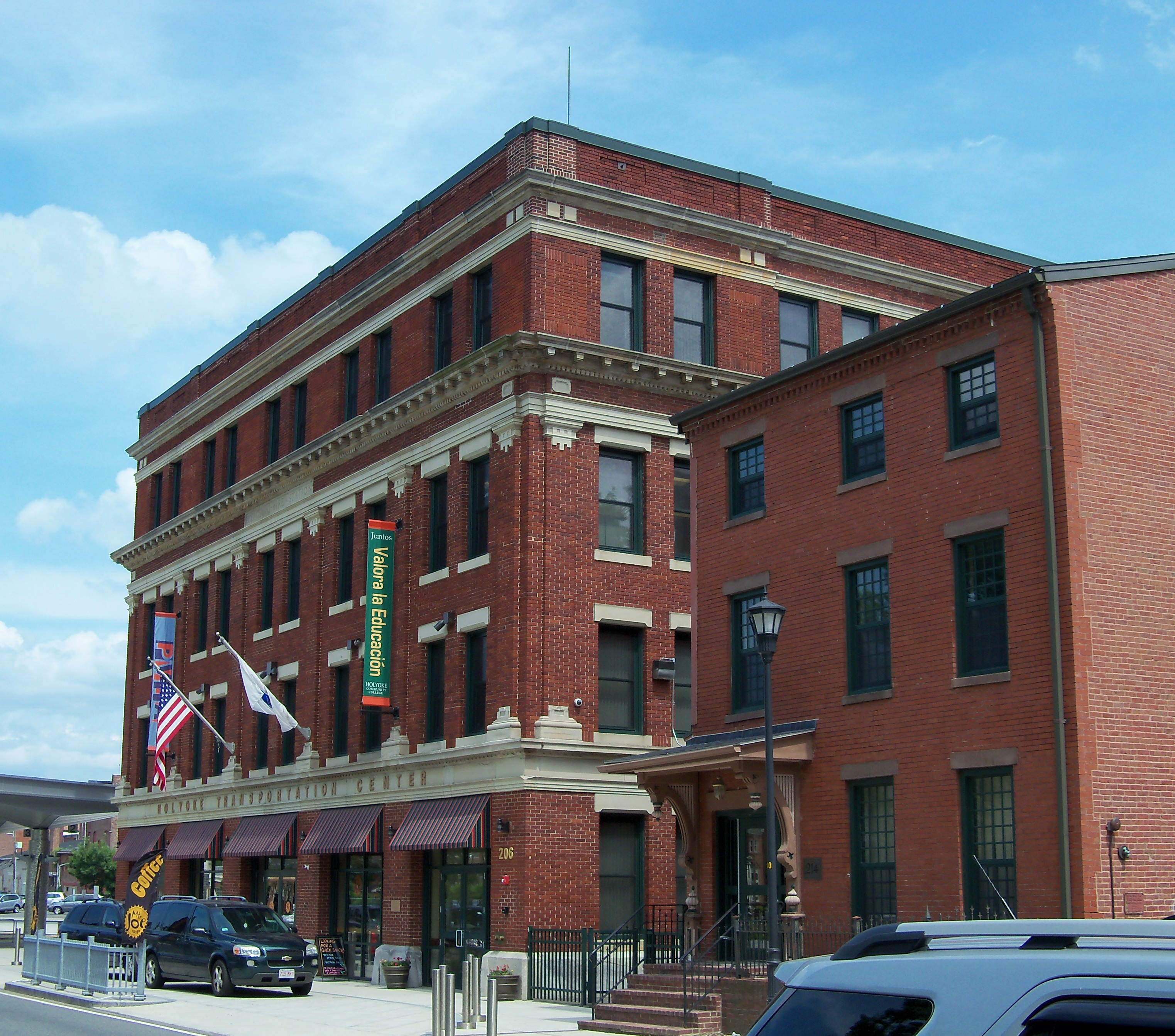 Holyoke Transportation Center in Holyoke, Massachusetts, USA.